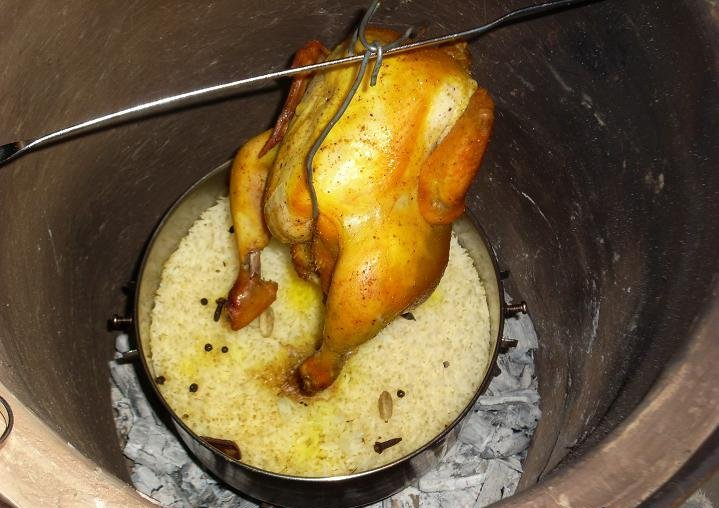 A Mandi pit from the inside.